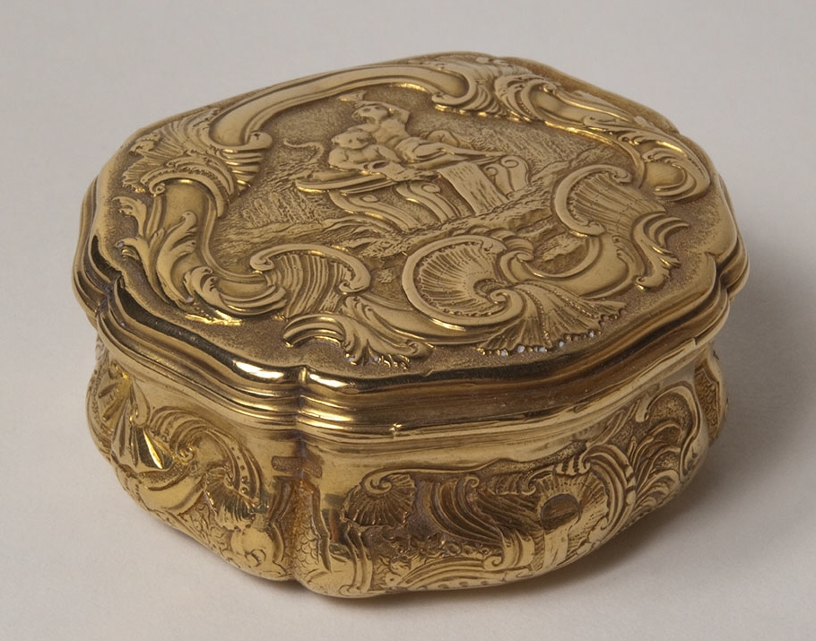 Snuff box in gold. Made by Frantz Bergs (1697-1787).